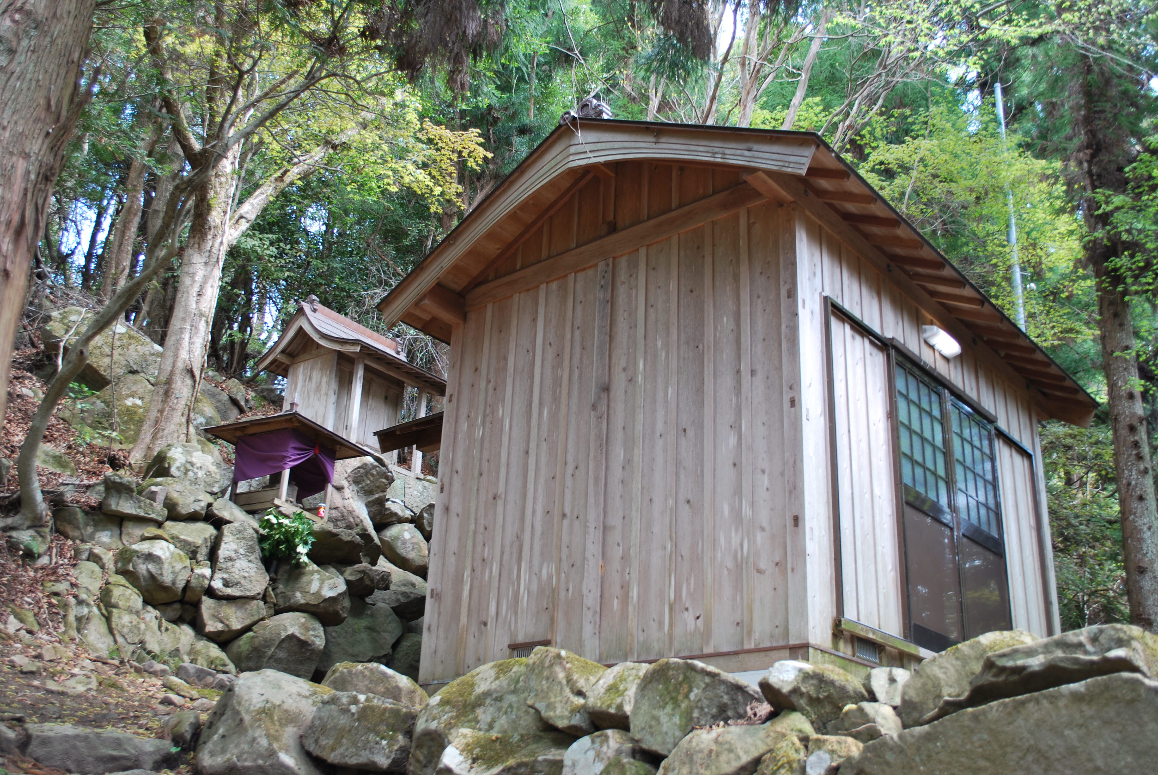 Front hall, Kuroiwa-daigongen